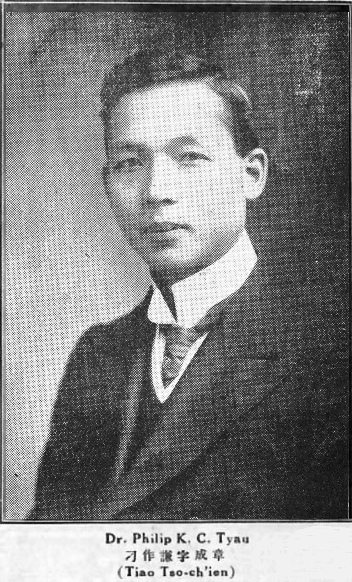 Diao Zuoqian (Tiao Tso-ch'ien; Dr. Philip K. C. Tyau), Chengzhang (1880 - 1974)